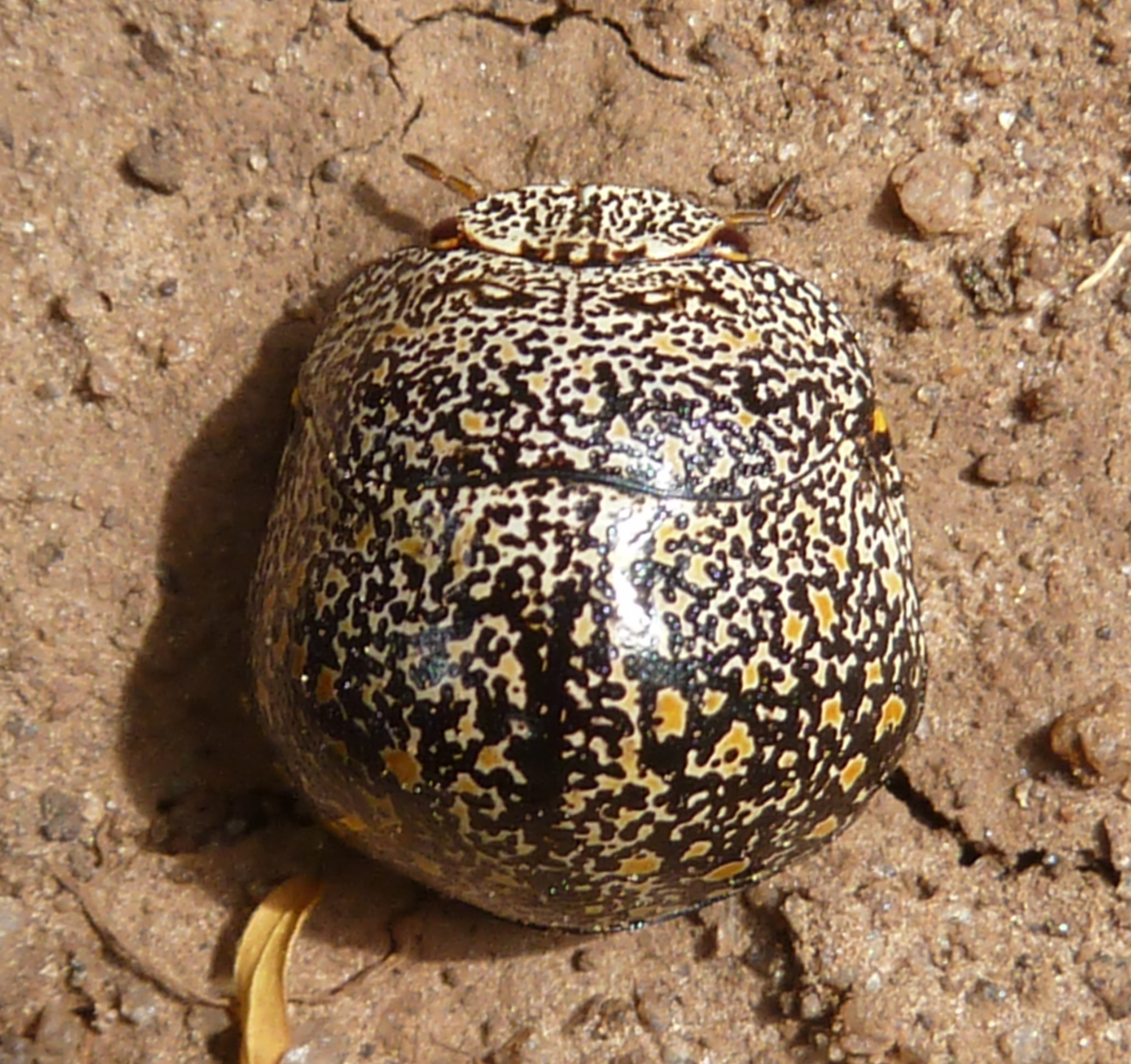 Upperside of Libyaspis sp., cf. Libyaspis wahlbergi in a forest on the southern slope of the Magaliesberg, near Skeerpoort, South Africa. The upperside of this bug is very smooth – it can only be picked up from the ground with difficulty.